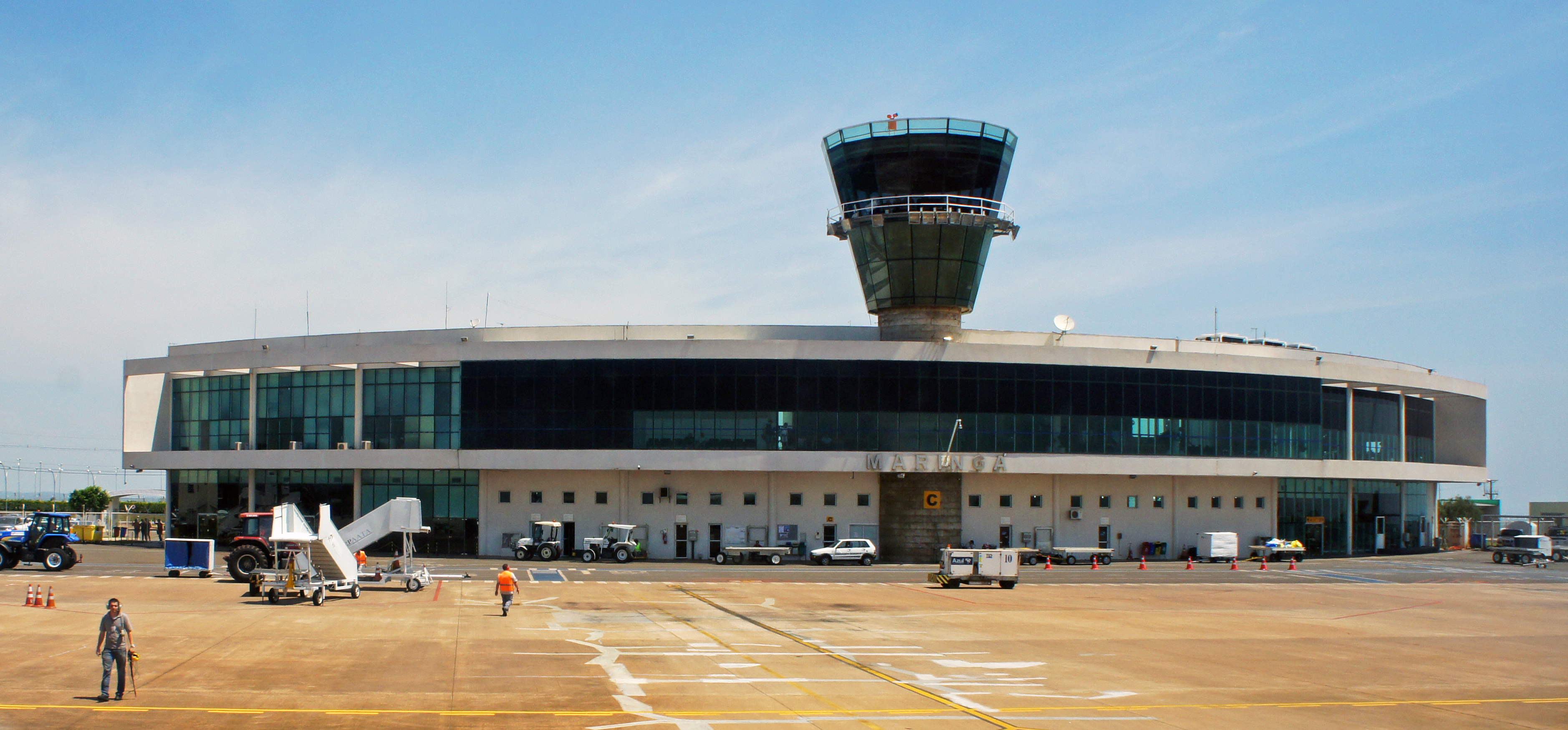 Sílvio Name Júnior Regional Airport, Maringá, Paraná, Brazil